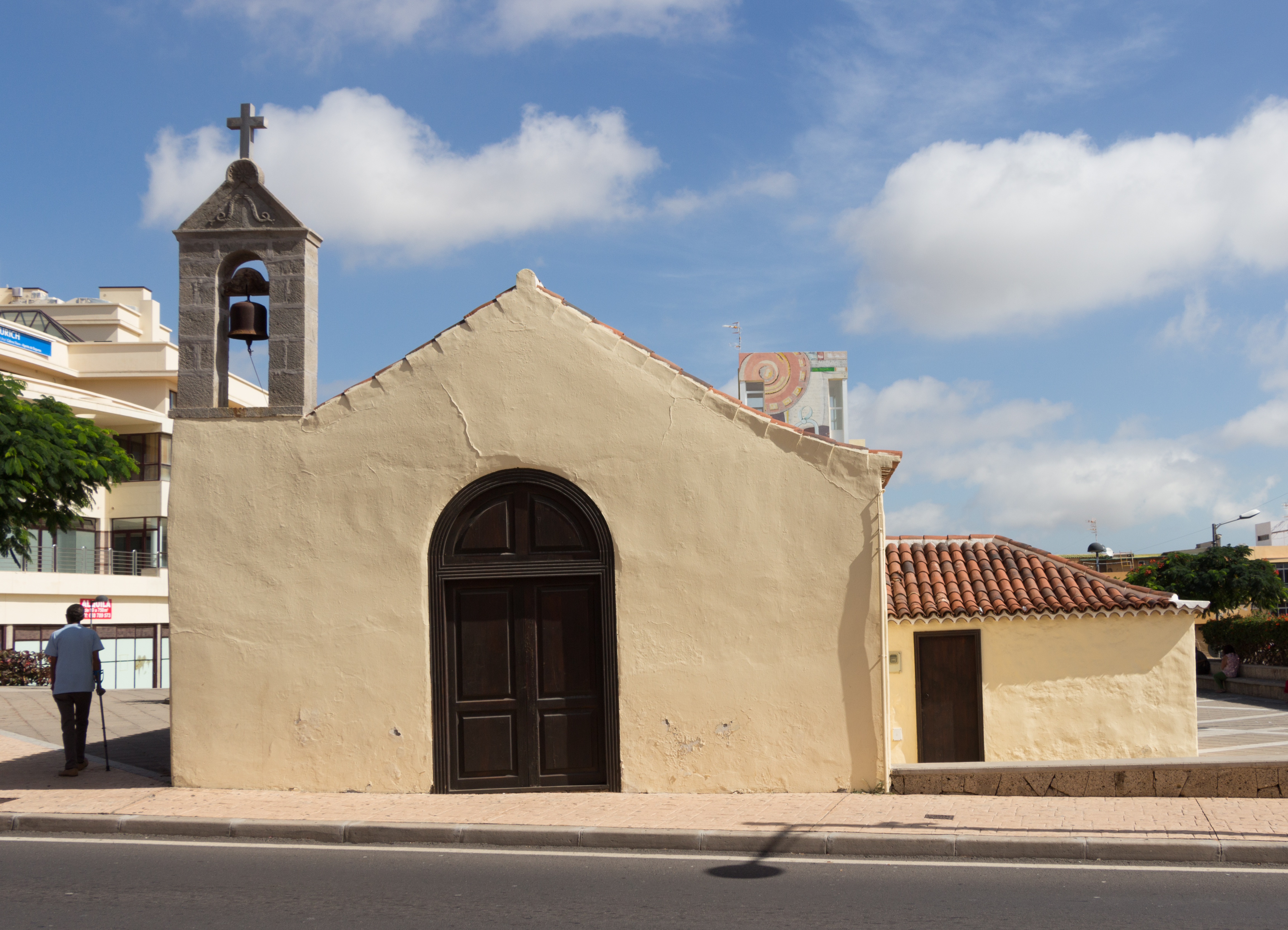 Ermita de San Isidro El Labrador. San Isidro (Granadilla), Tenerife, Spain